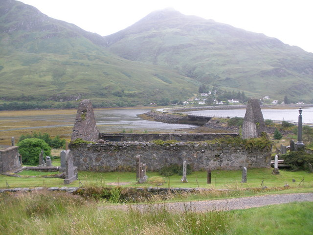 Remains of St Dubhthach's Church Morvich, near to Carn-Gorm, Highland, Great Britain.